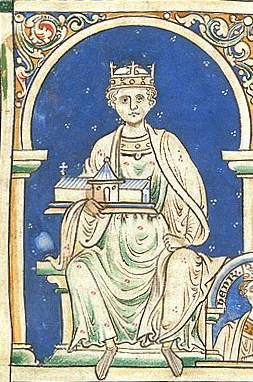 Cropped and perspective-corrected version of File:Henry II of England.jpg.